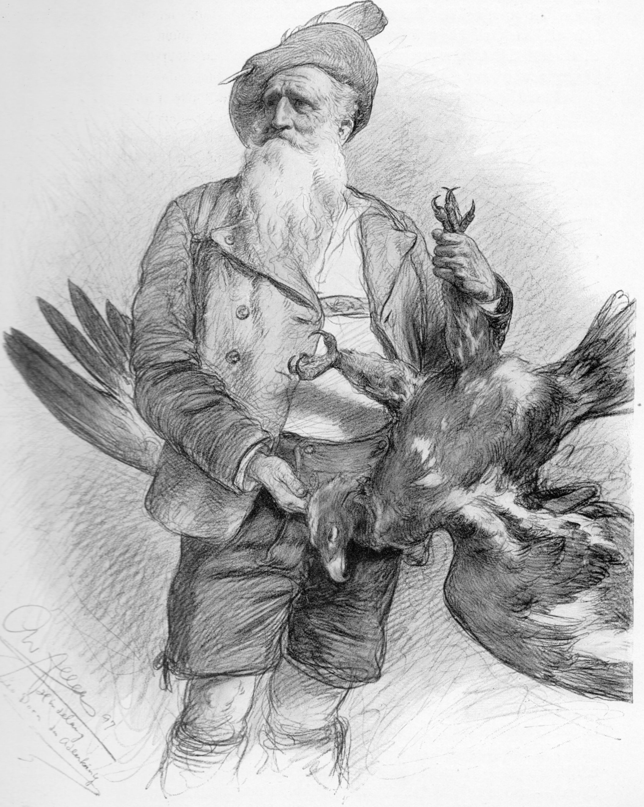 Eagle hunter Leo Dorn holding an eagle.